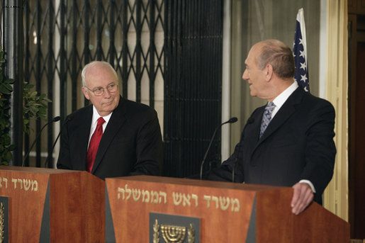 Vice President Dick Cheney looks on as Prime Minister of Israel Ehud Olmert delivers a statement Saturday, March 22, 2008 during a press availability at the prime minister's residence in Jerusalem. The Vice President is scheduled to meet with both Israeli and Palestinian leadership over Easter weekend to discuss President Bush's commitment to a two state solution for Israeli-Palestinian peace.